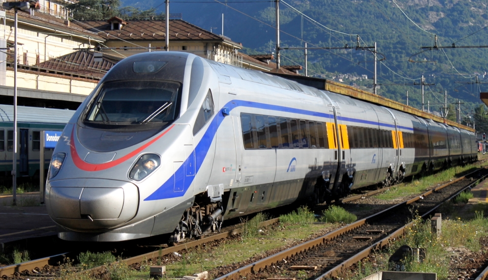 Cisalpino ETR 610 008 calling at Domodossola while running from Genève to Milano C.le as CIS 35.